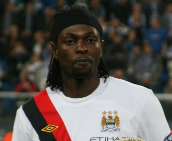 Emmanuel Adebayor and James Milner - Man City players line-up Lech Poznań vs Manchester City FC, 4 November, 2010